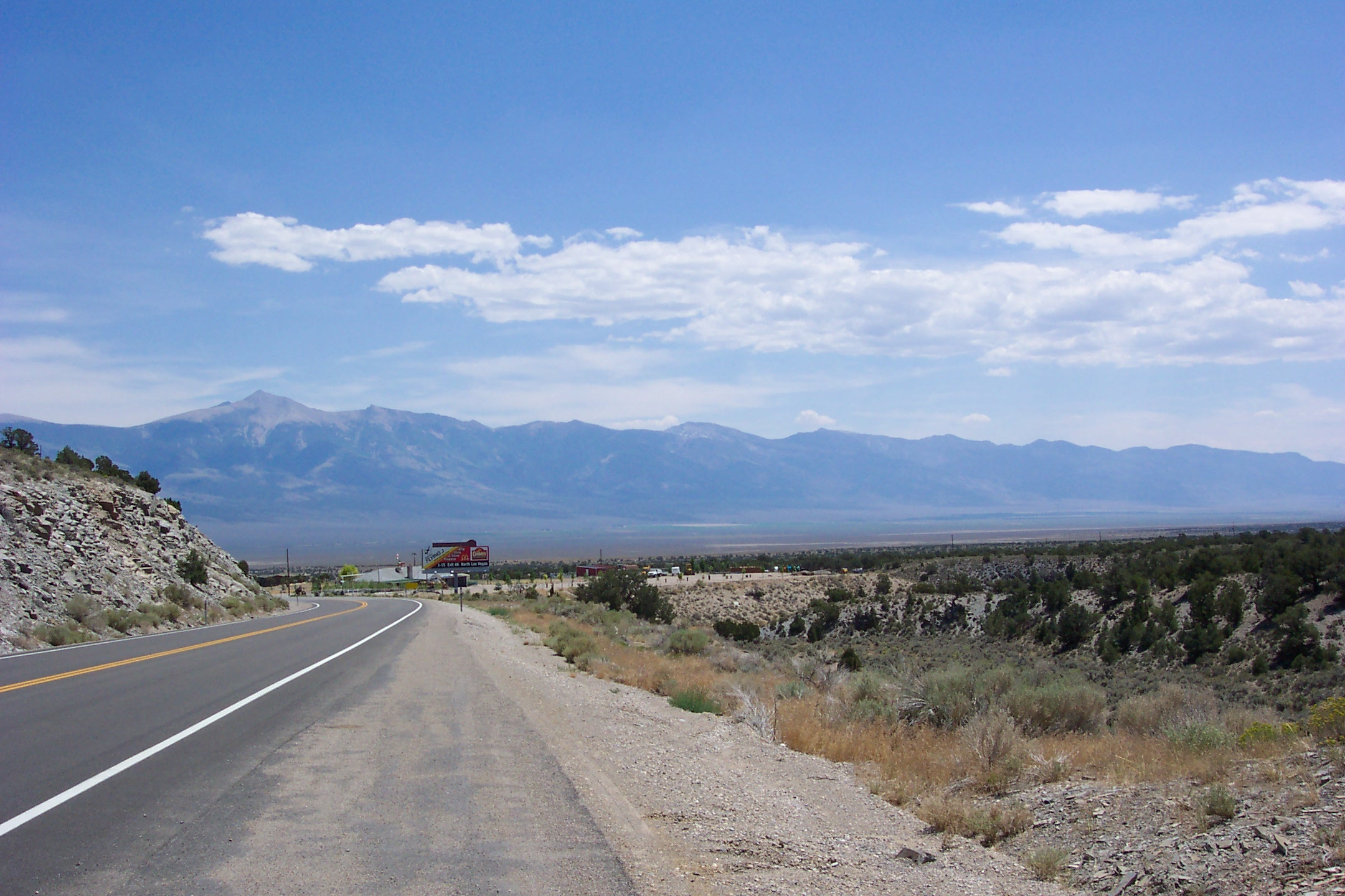 U.S. Route 50 in Nevada. Pictured is the junction with U.S. Route 93 at Major's Place, Nevada, one of only two places to get gas over the 150-mile span between Delta, Utah and Ely, Nevada.